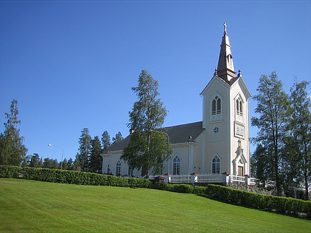 Bräcke church